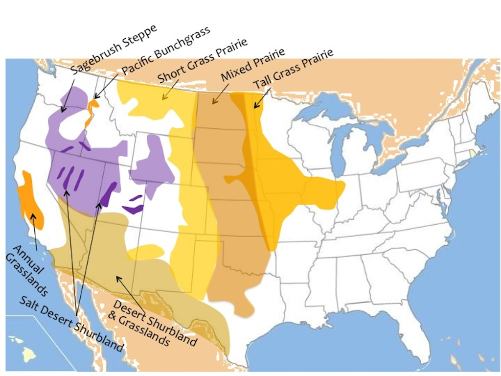 Map the North American ecoregions within the and Deserts and xeric shrublands terrestrial biomes. This map roughly represents rangeland ecosystems in the central and western U.S. and northern Mexico